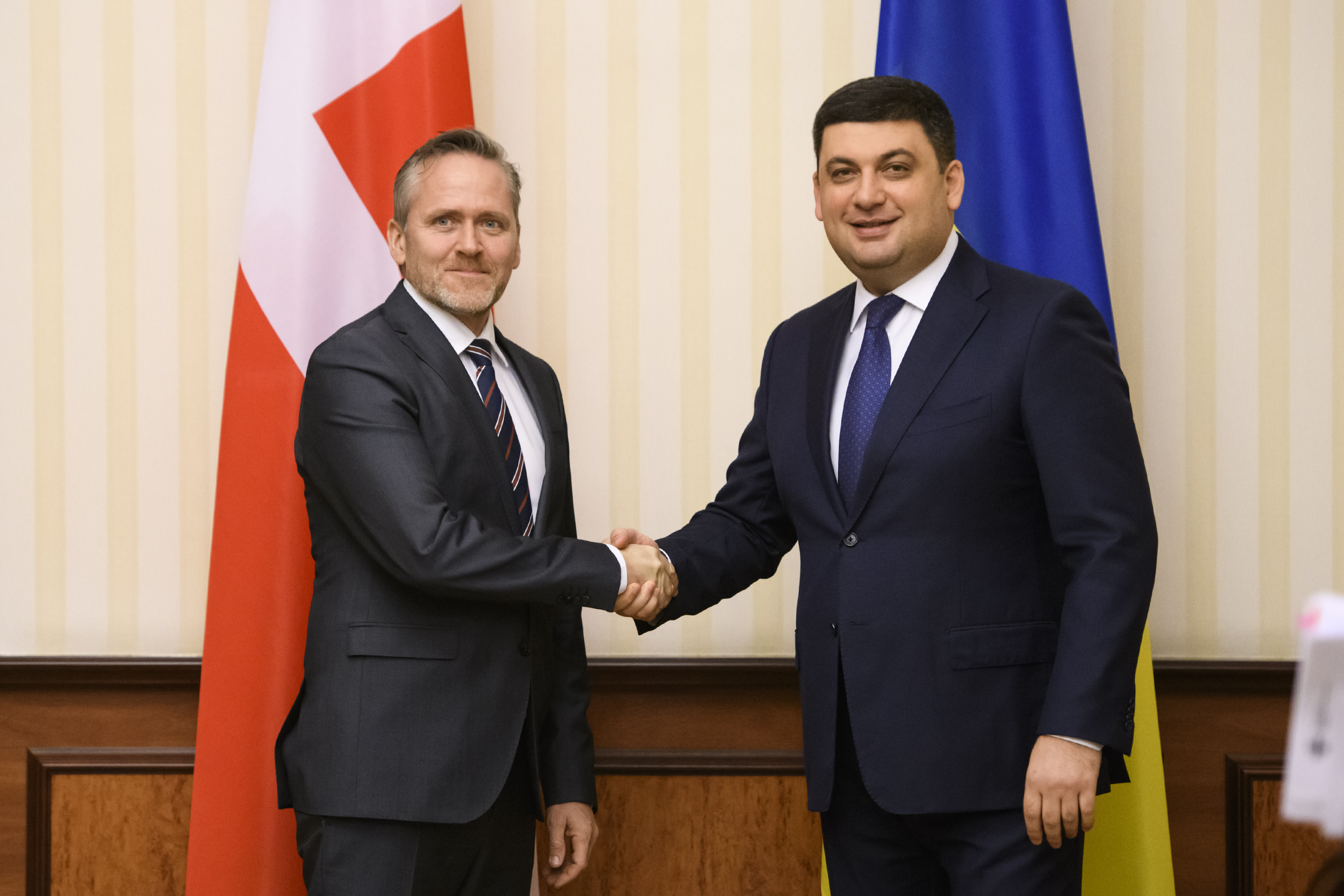 Прем’єр-міністр України Володимир Гройсман зустрівся з Міністром закордонних справ Данії Андерсом Самуельсеном